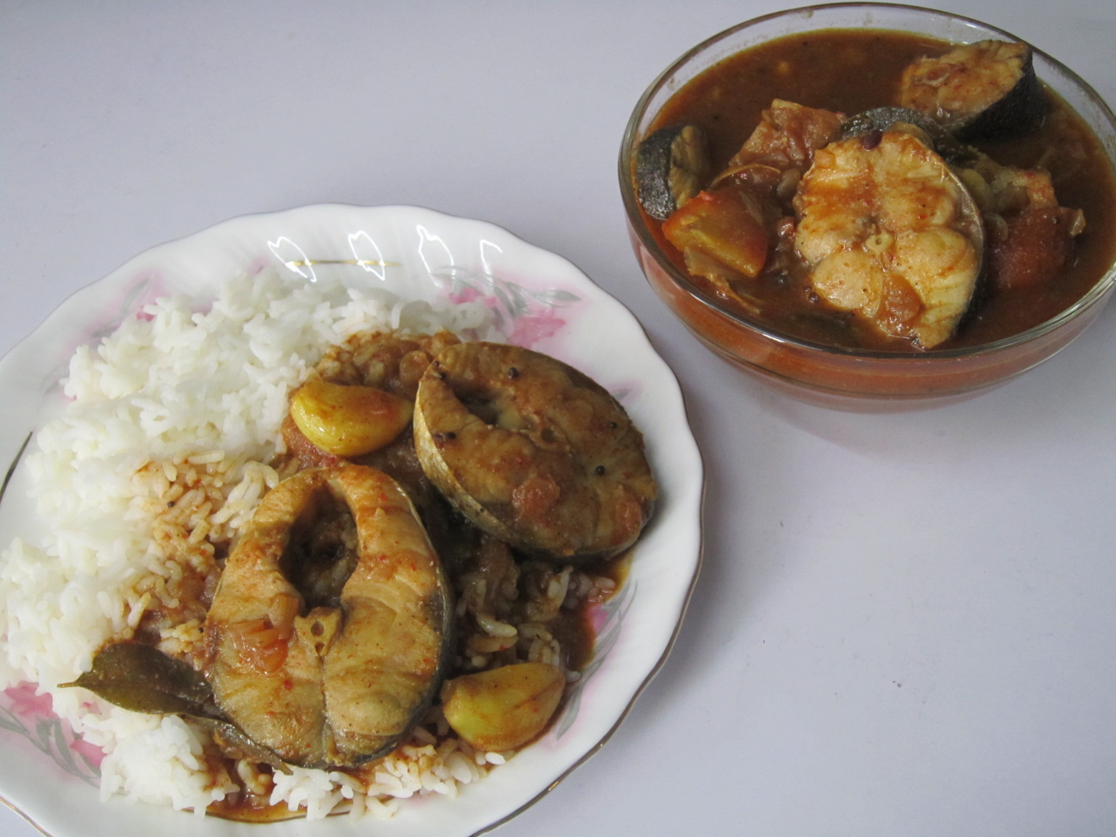 Home style sheela meen kuzhambu \ barracuda fish curry